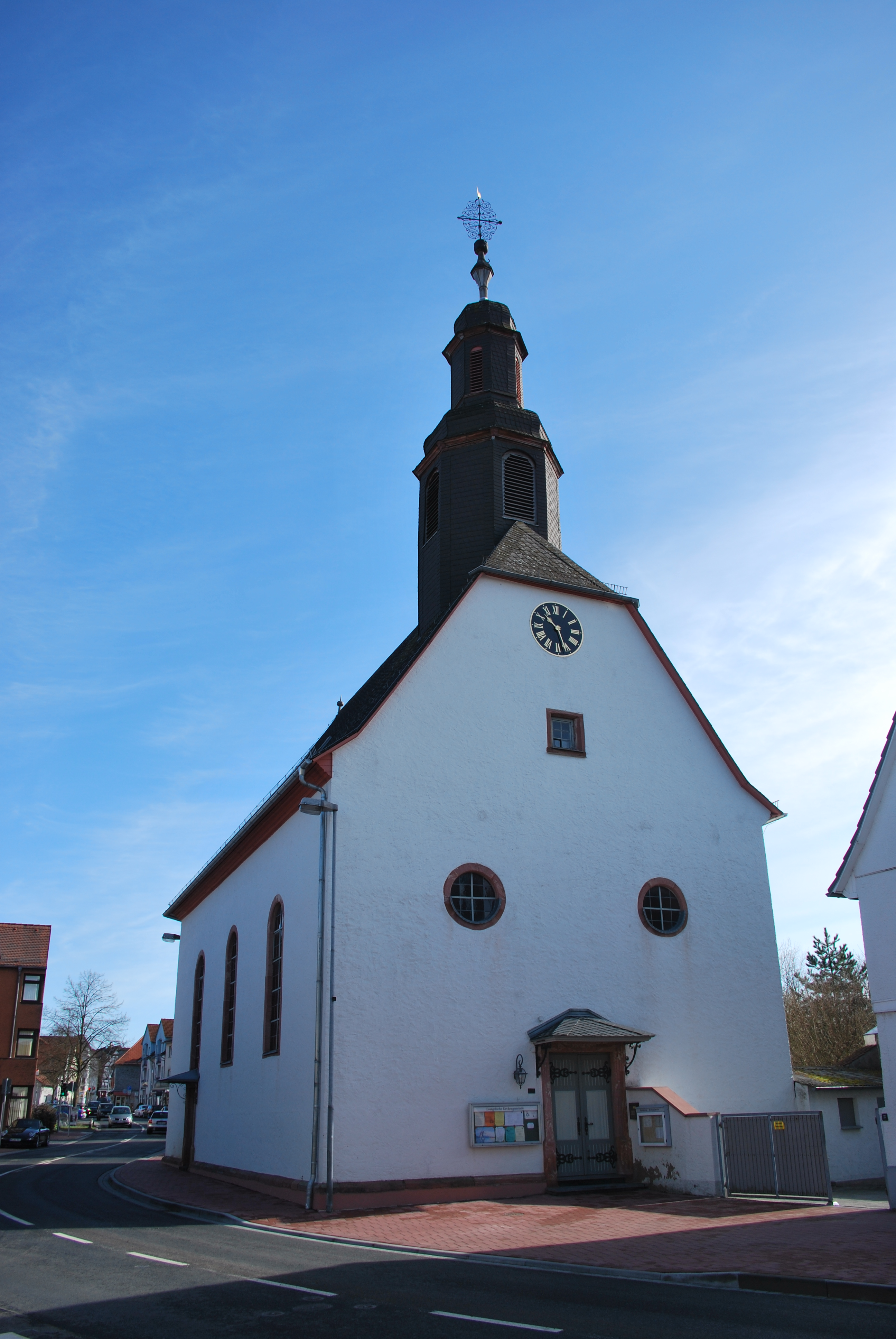 Church of Köppern